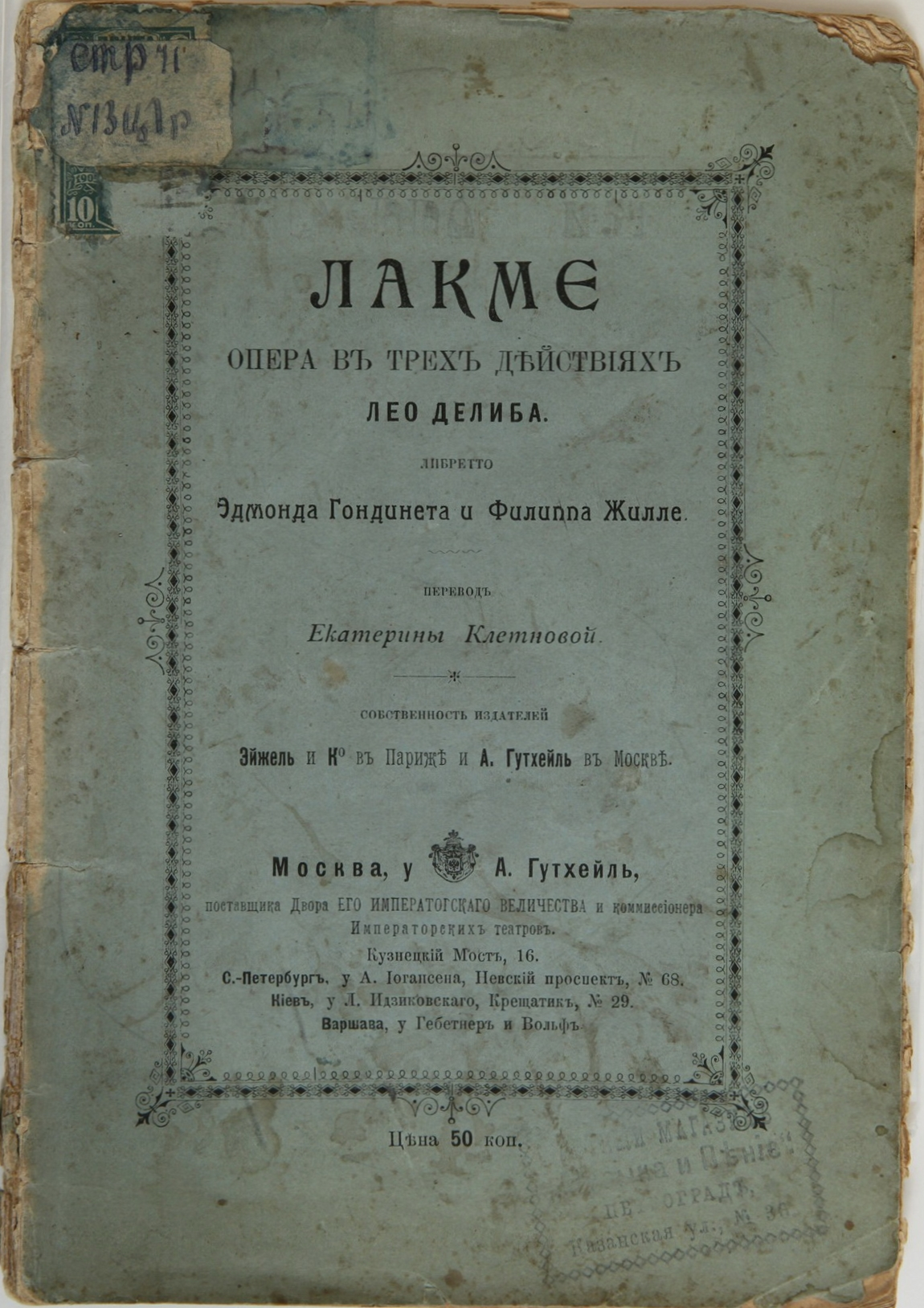 Cover of the Lakmé opera libretto, Russian translation by Ekaterina Kletnova